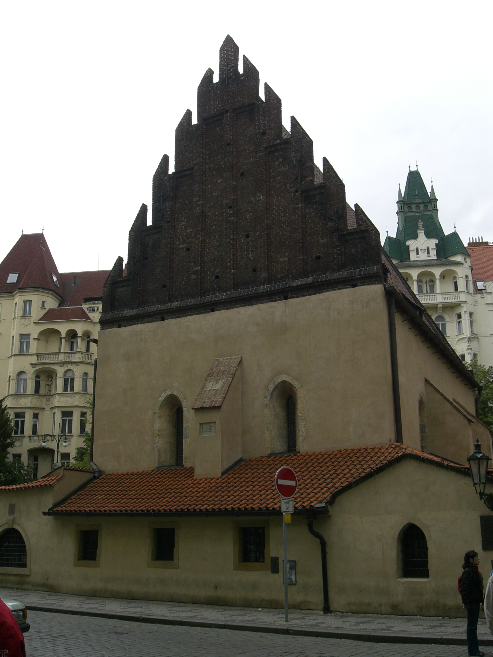 Old New Synagogue in Prague, Czech Republic.